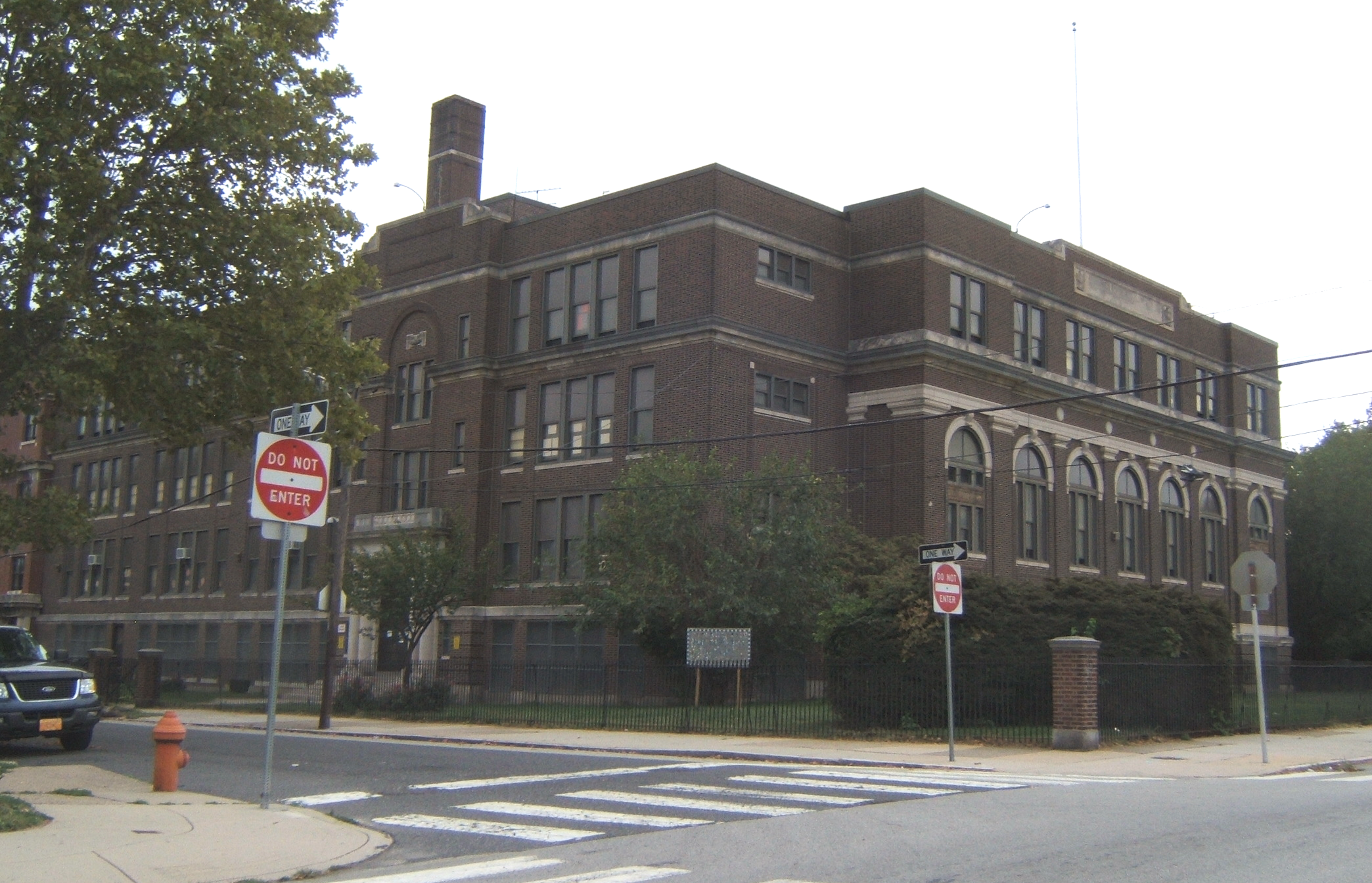 Henry R. Edmonds School, 1197 Haworth Street, Philadelphia, PA 19124. Now the Philadelphia Charter School for Arts and Sciences at H.R. Edmunds.